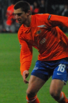 Philippe Koch playing for FC Zurich, 25 November 2009